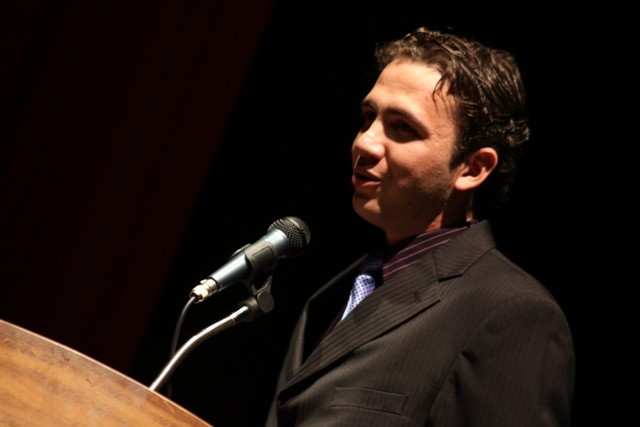 I took this picture while at the Event.